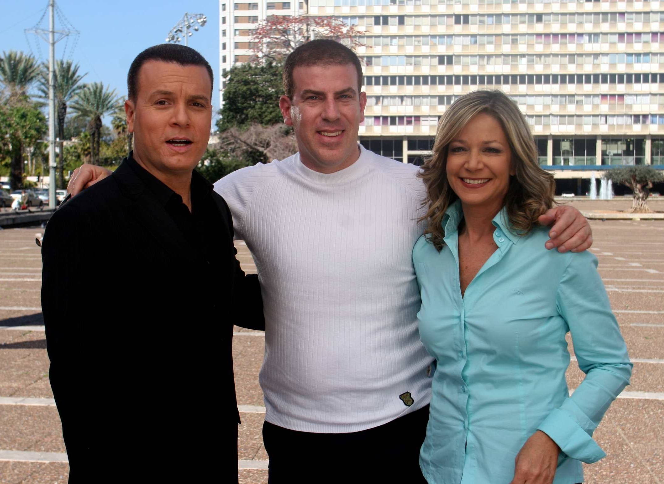 Left to right: Yaakov Eilon, Gilad Adin, Miki Haimovich